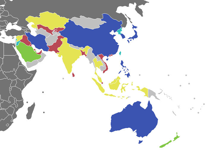 Best finishes of countries in the FIBA Asia Cup (formerly FIBA Asia Championship until 2017) First place Second place Third place to Fourth place Fifth place to Eighth place Worse than Eighth place FIBA Asia or FIBA Oceania member, no appearance yet Not a member of FIBA Asia or FIBA Oceania